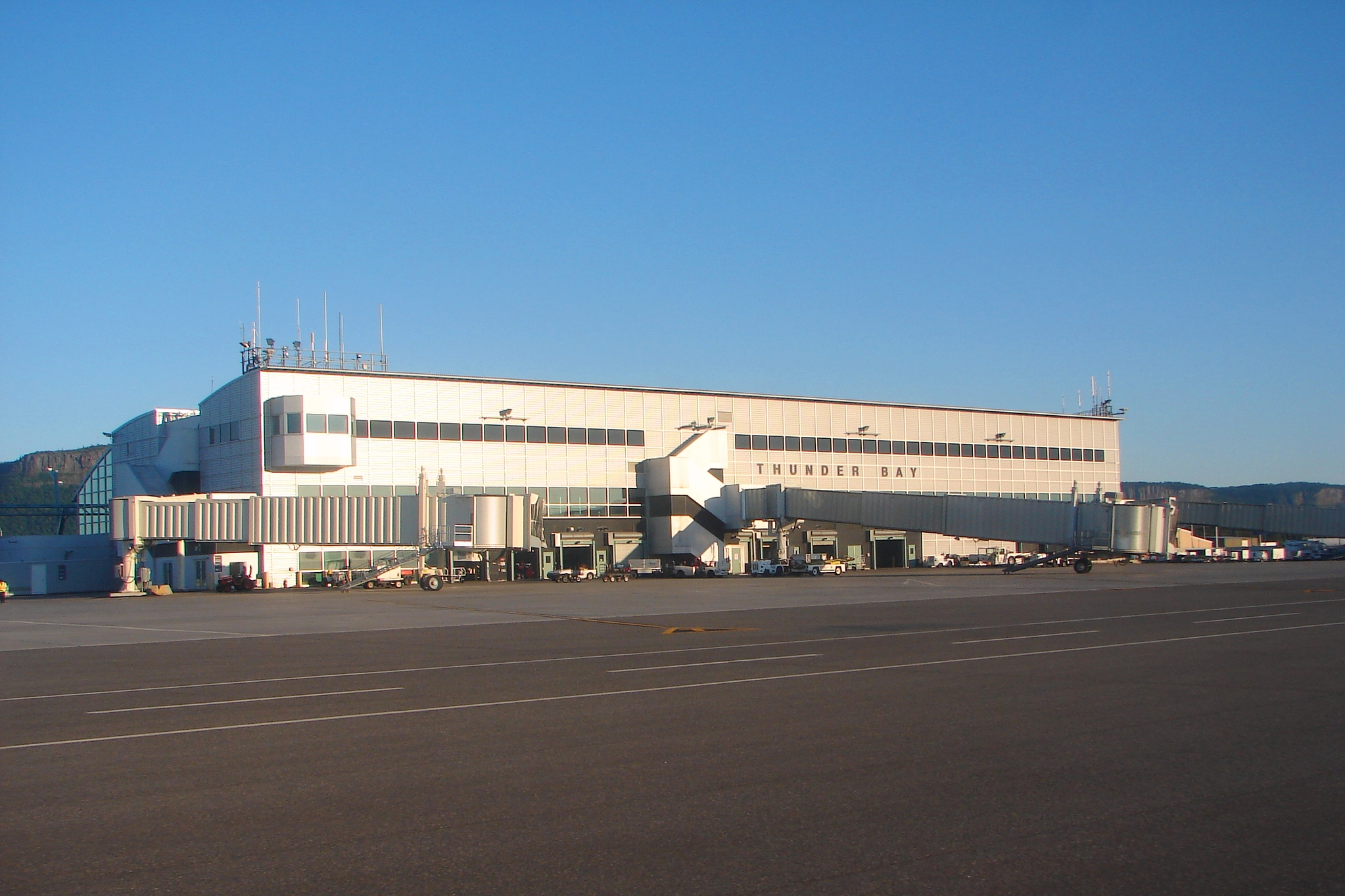 Thunder Bay Airport (apron/ramp side), Thunder Bay, Ontario, Canada